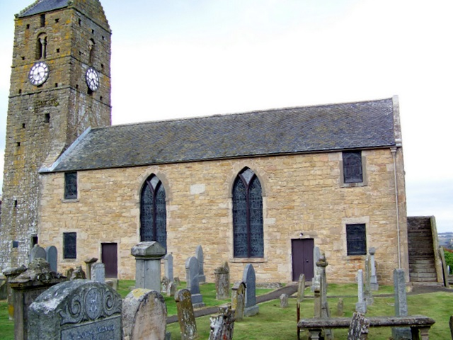 St Serf's Church, Dunning The church is named after St Serf. From the texts relating to his life, he was probable active in west Fife and the surrounding area around 700. Culross was his principal church and the place of his presumed burial. It is possible that Serf was a Pict - it is claimed that his mother was Ingen rig Cruithnech, daughter of the King of Picts. St Serf's Church has been altered and modified many times in its 800 year history, reflecting the changing approaches to worship.